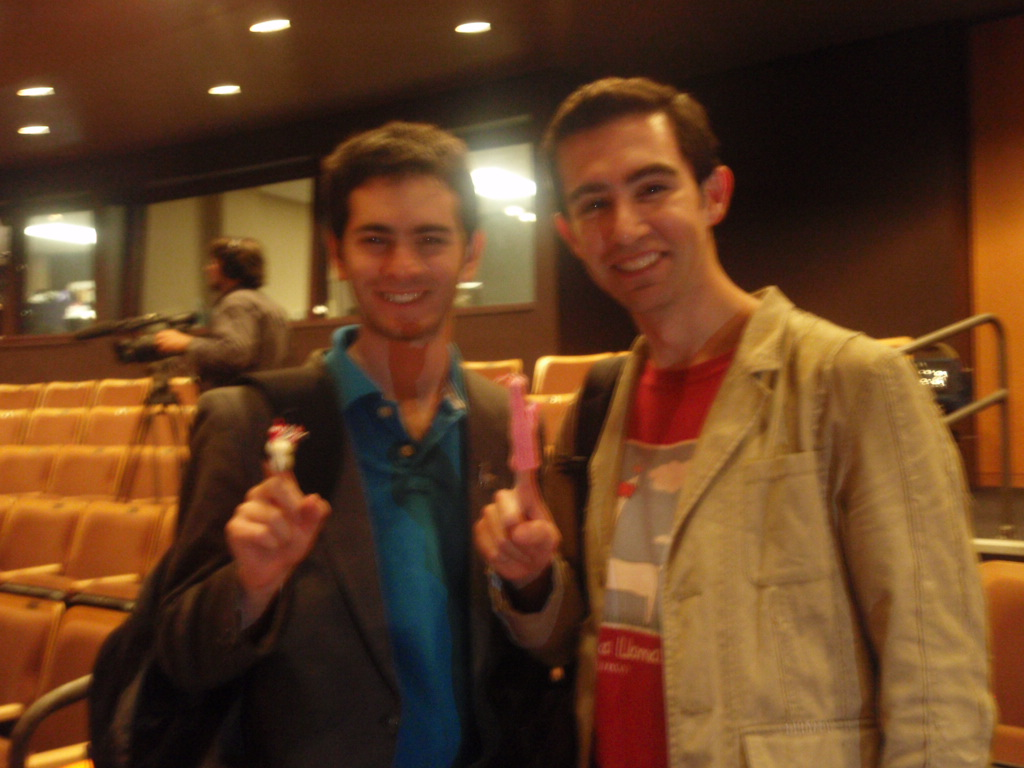 Dean Schaffer (left) and Daniel Berdichevsky (right), members of DemiDec, the latter of whom is the founder, right before at the 2009 Academic Decathlon Speech Showcase. The two are wearing alpaca fingerpuppets; alpacas are the mascot of DemiDec.